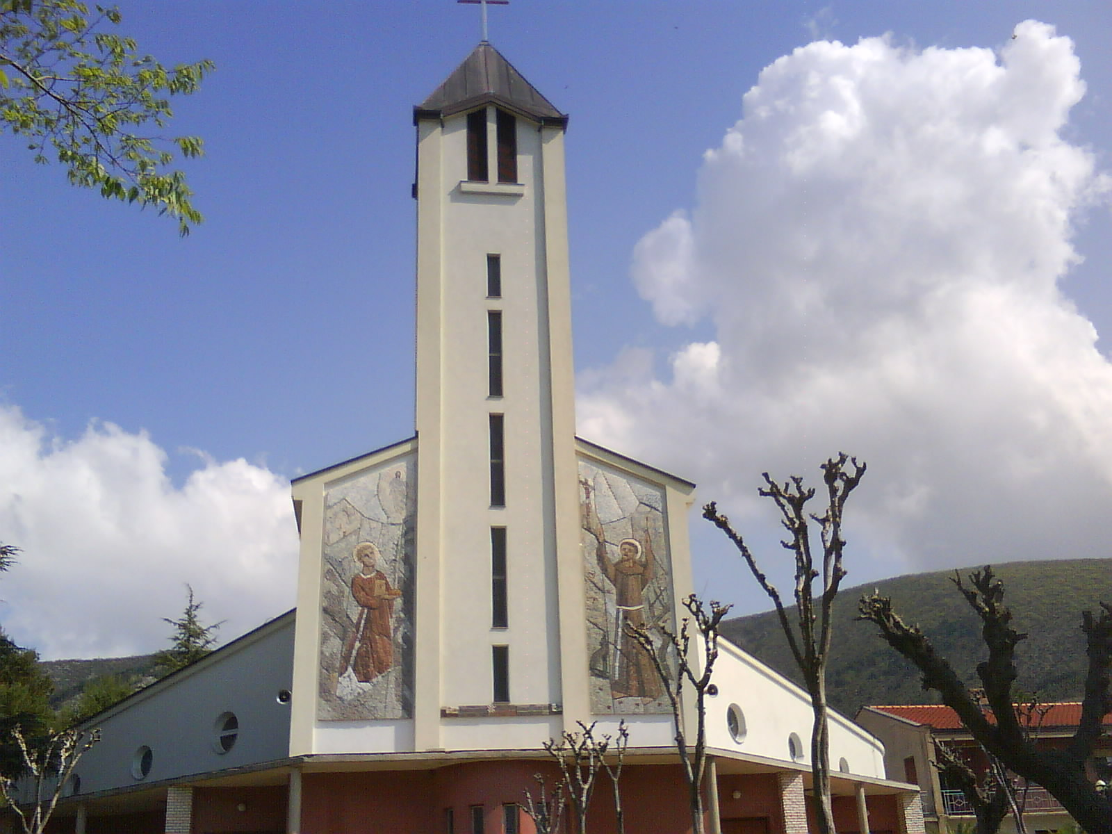 Roman catholic church of St. Stephen in Sovići